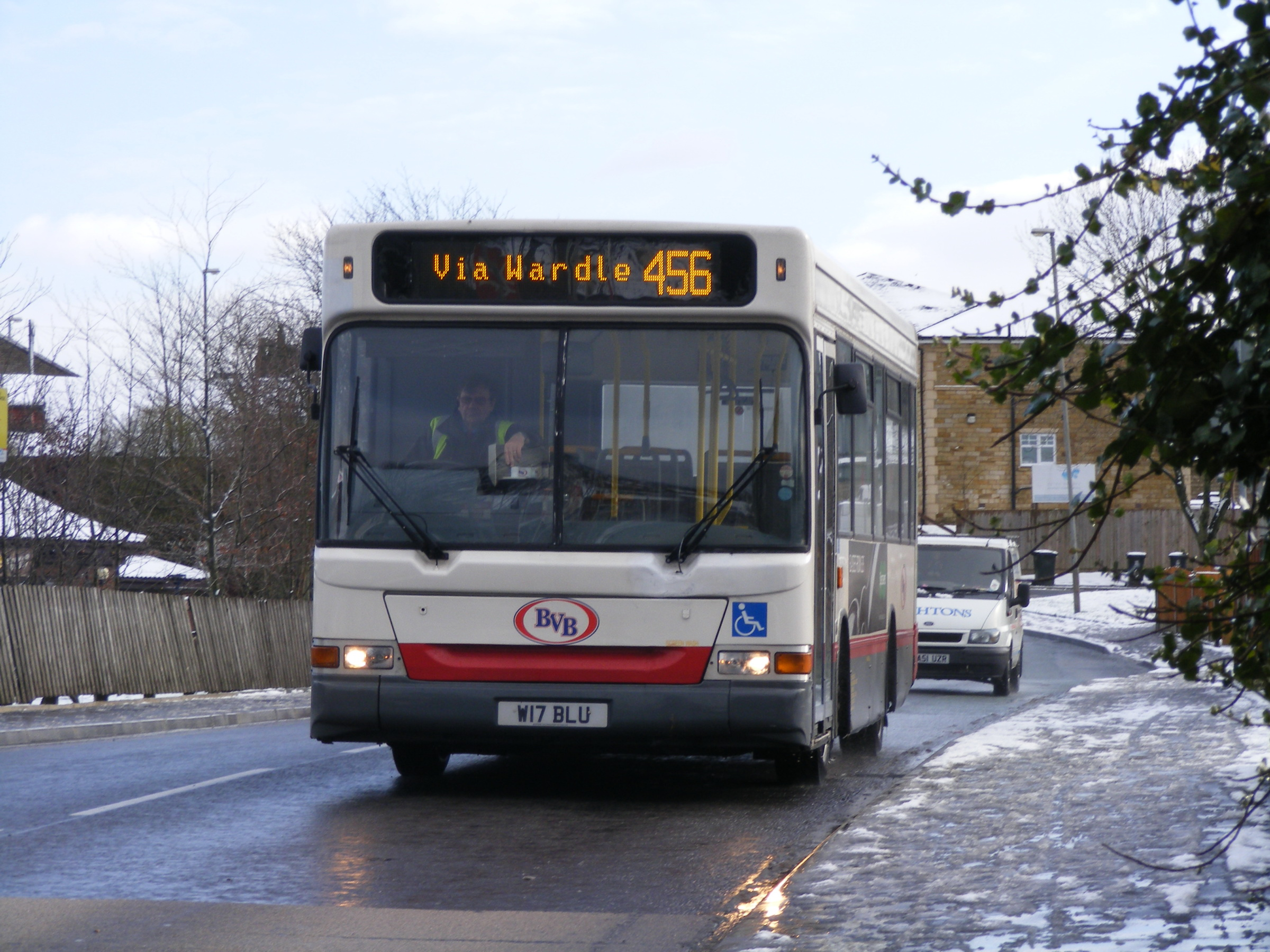 Bu-Val W17 BLU Dennis Dart / Plaxton Pointer at Smithy Bridge. This bus was new to Bluebird of Middleton.